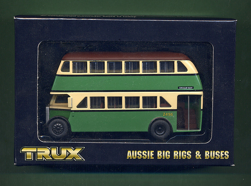 Photo of Trux model bus.